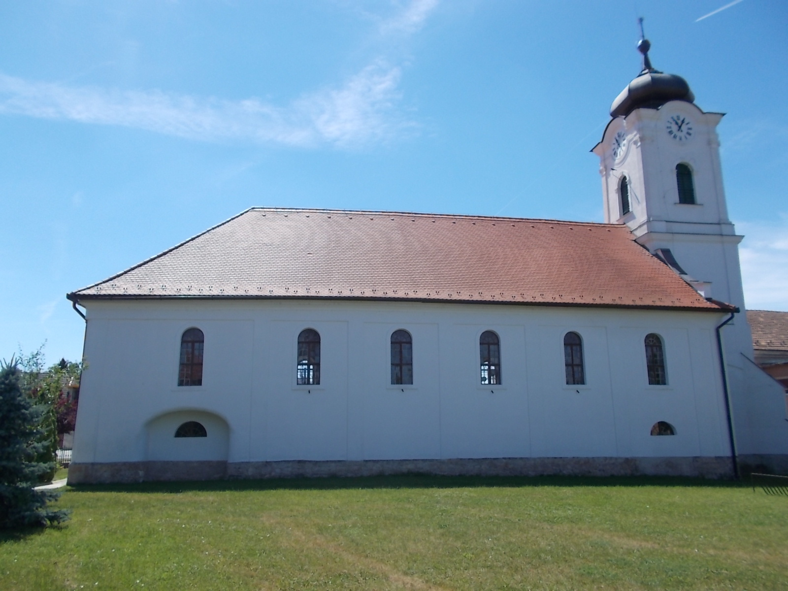 Reformed Church. - Szent István Street, Bicske, Fejér County, Hungary.